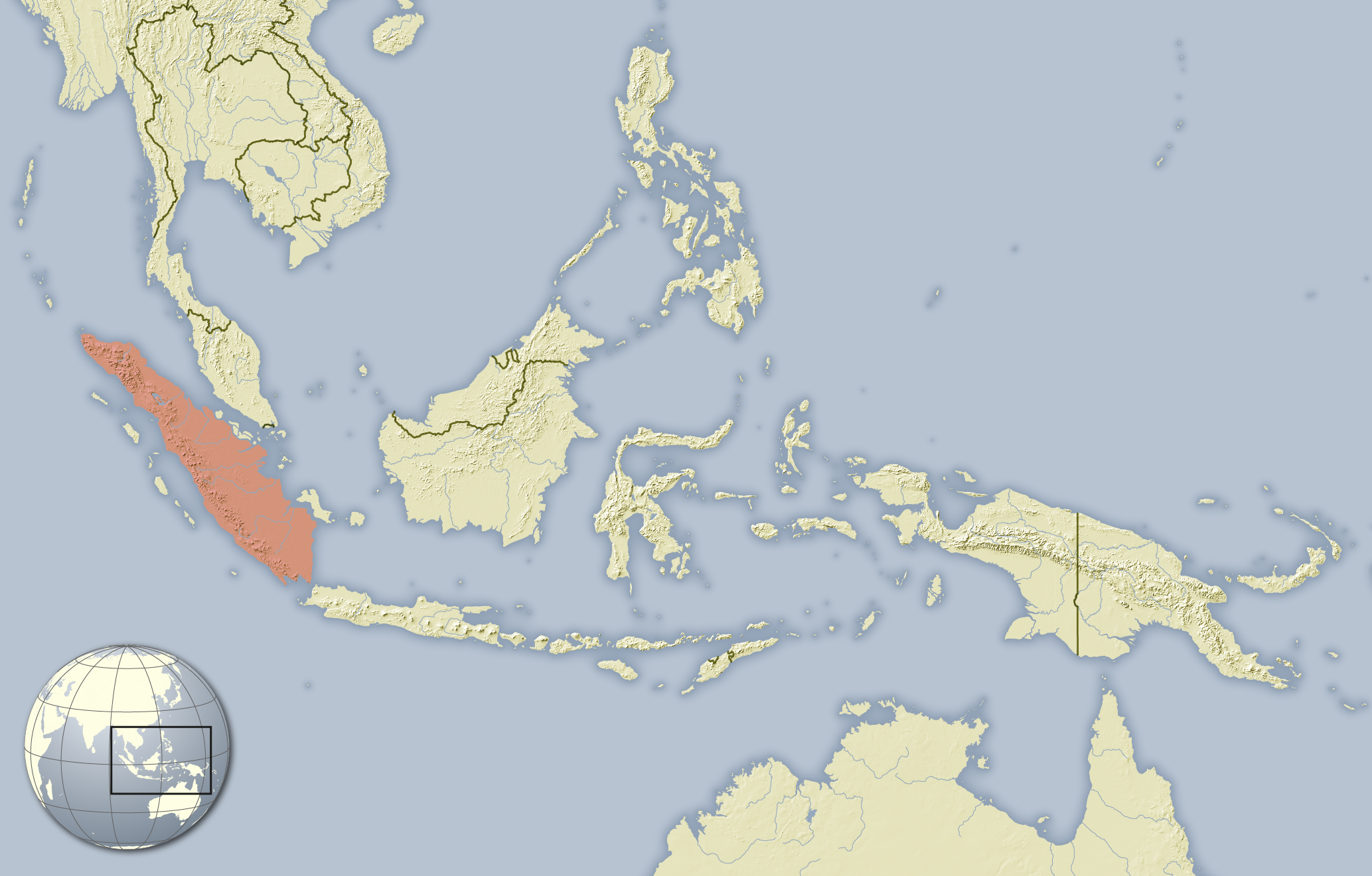 Distribution map of the Sumatran porcupine